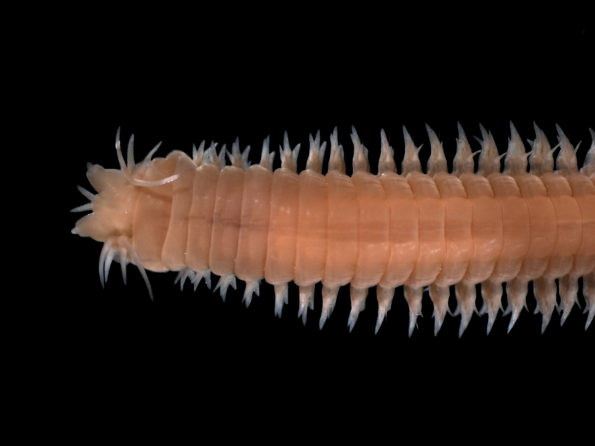 from the Belgian continental shelf.